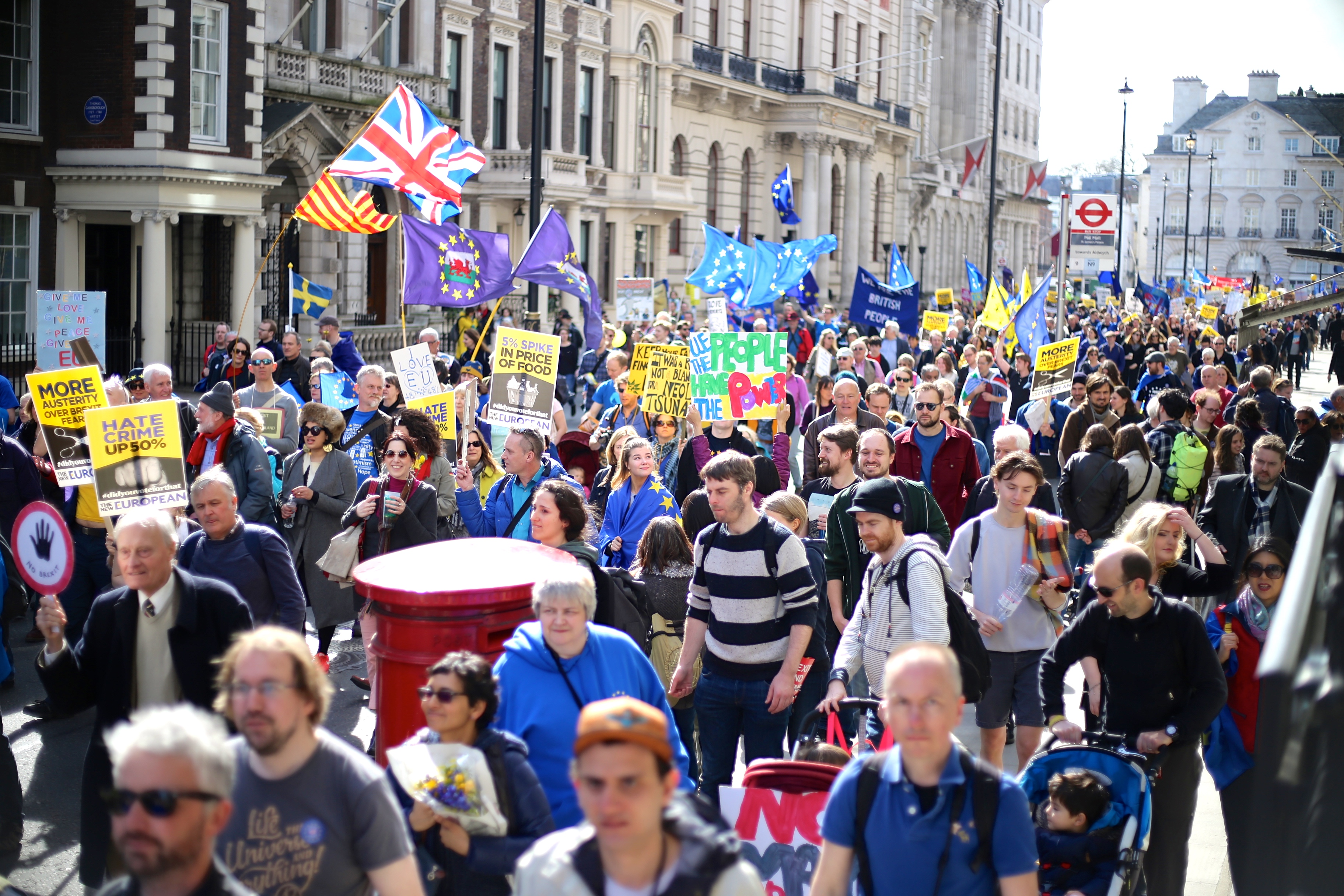 The pro-EU march from Hyde Park to Westminster in London on March 25, 2017, to mark 60 years since the EU's founding agreement, the Treaty of Rome.